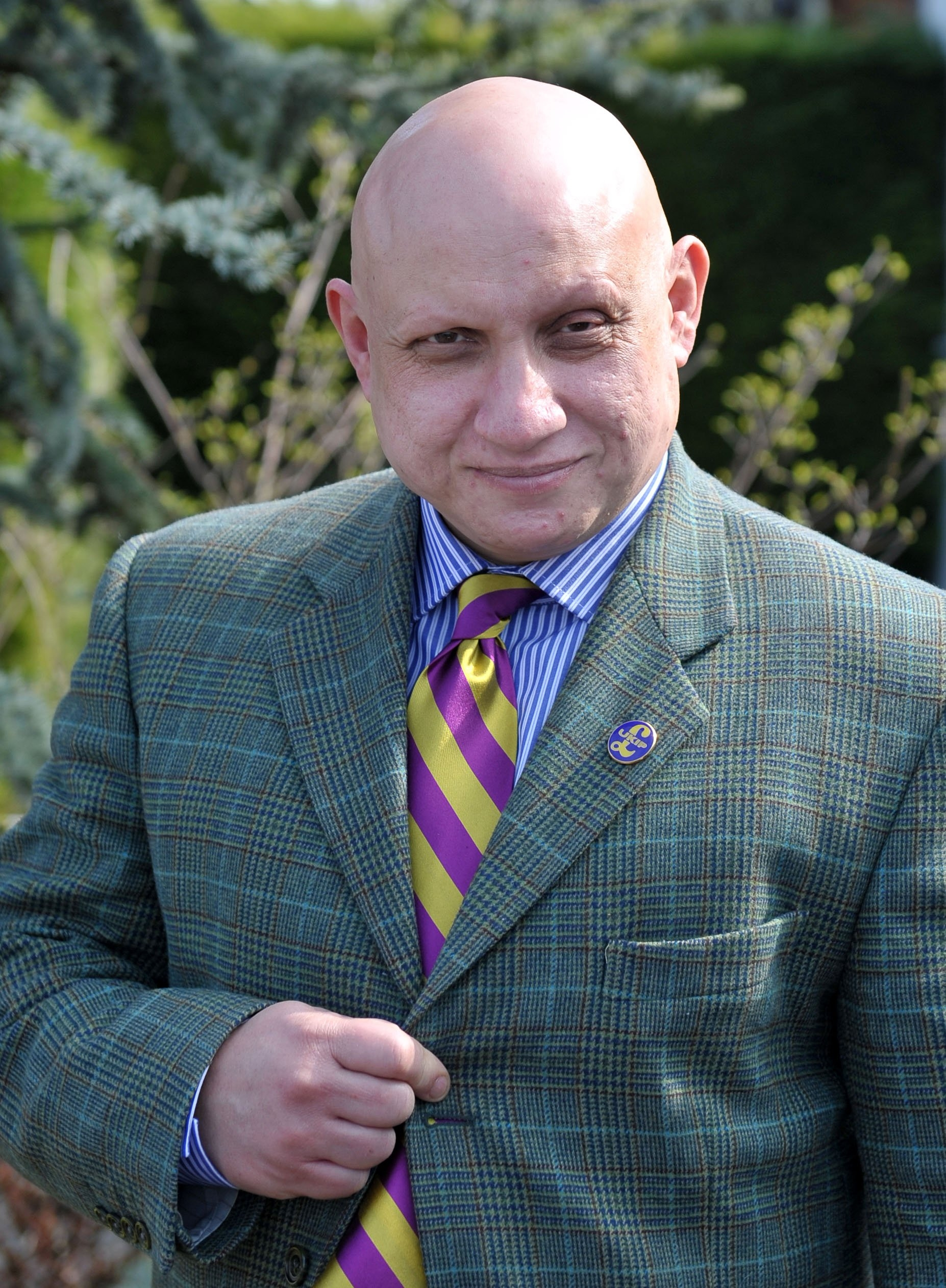 Close-up portrait photograph of Andrew Charalambous taken by Paul Edwards, April 2015.